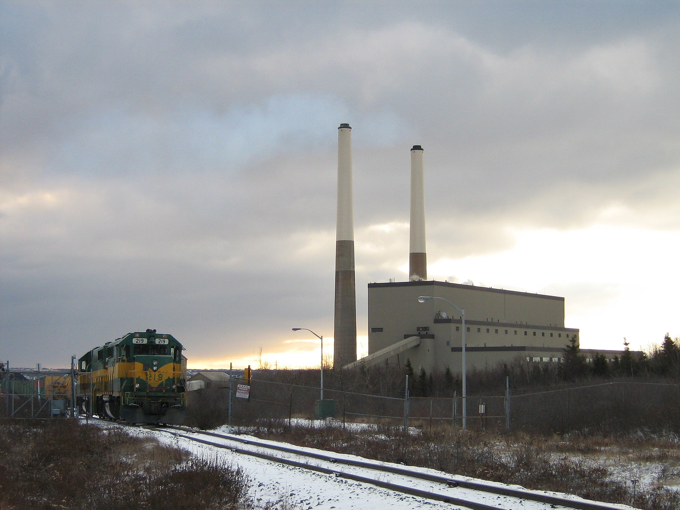 Photograph of Lingan Generating Station located in the community of Lingan in Nova Scotia's Cape Breton Regional Municipality. This is on Cape Breton Island, in the province of Nova Scotia, Canada. Also shown are two locomotives of the SCR (Sydney Coal Railway) leaving the power station after unloading a train load of coal for the plant. The Lingan Generating Station is a 620 MW Canadian coal-fired electrical generating station located in the community of Lingan in Nova Scotia's Cape Breton Regional Municipality. Lingan is operated by Nova Scotia Power Inc. and is their largest generating station. Lingan Generating Station rests on the shores of the Cabot Strait, open to Indian Bay, approximately 1.6 km (0.99 mi) south-west of the headland named North Head and 0.7 km (0.43 mi) north of the headland named Little Head. Its civic address is 2599 Hinchey Avenue, Lingan, NS. A thermal generating station, Lingan was opened by then-provincial Crown corporation Nova Scotia Power Corporation on November 1, 1979 at the height of the 1970s oil crisis. It was designed to burn bituminous coal mined by the Cape Breton Development Corporation (DEVCO) at the nearby Lingan Colliery and the adjacent Phalen Colliery as a means of reducing Nova Scotia's reliance of foreign oil for electrical generation.